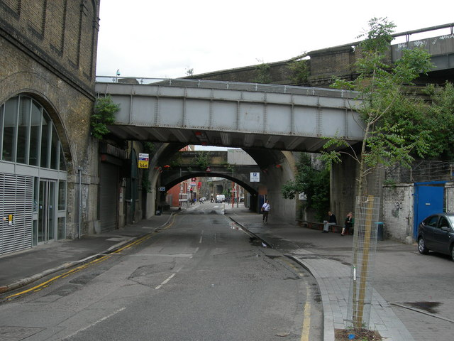 Great Suffolk Street, SE1 (3) The angles of the railway bridges in relation to each other make it appear that the camera wasn't vertical... this is an optical illusion.